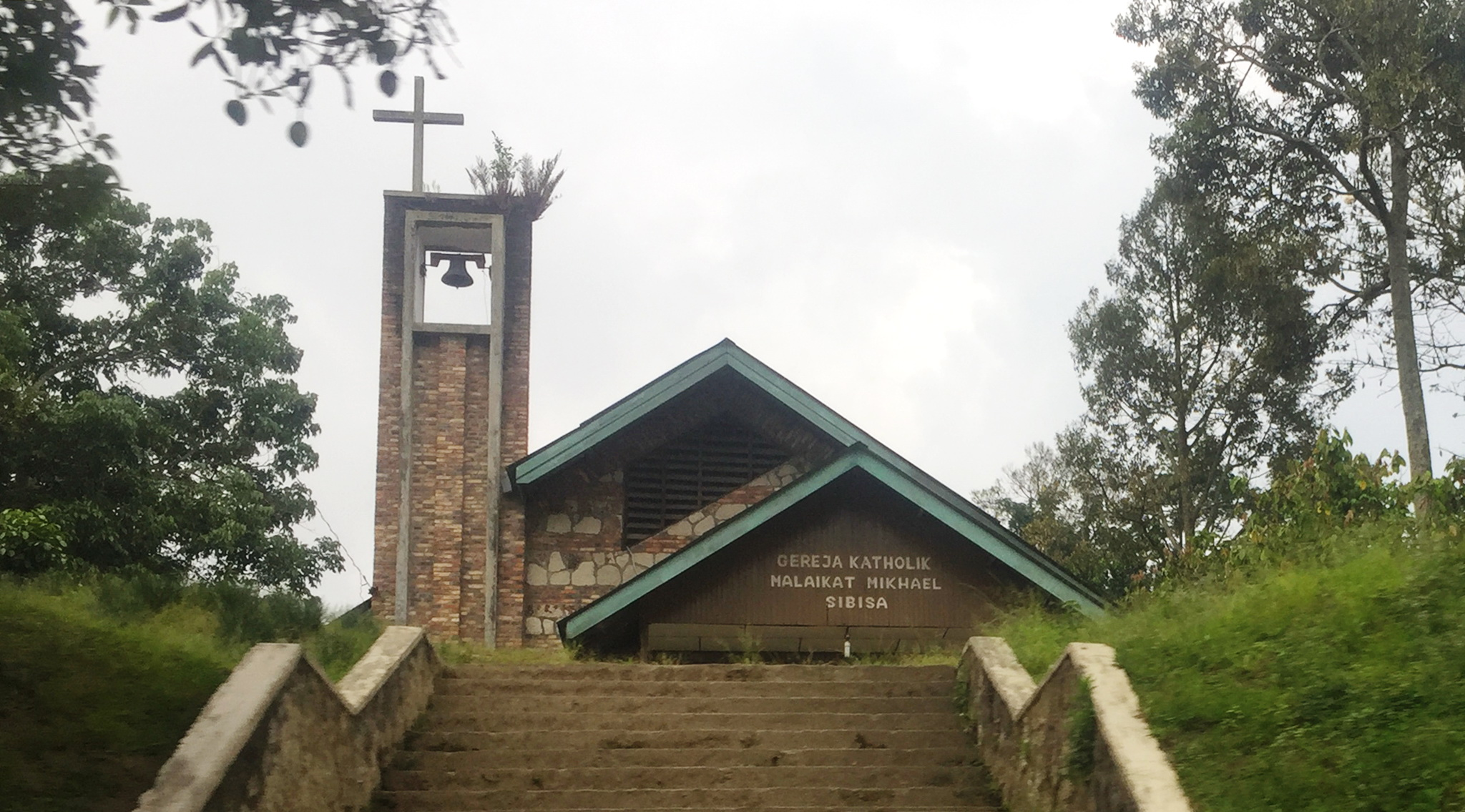 Malaikat Mikhael Sibisa Catholic Church in Panei Tongah, Panei, Simalungun